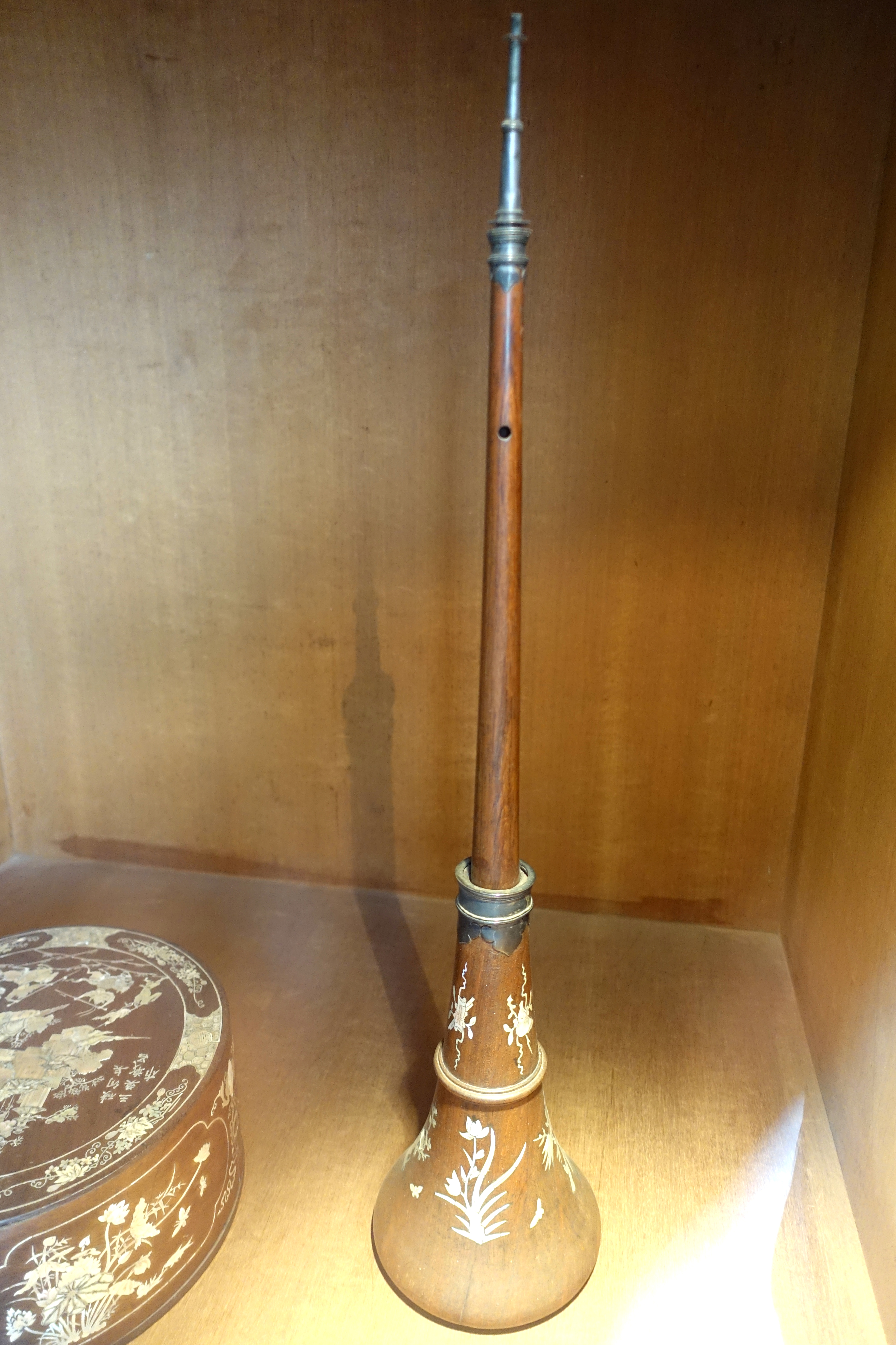 Exhibit in the Vietnam Museum of Ethnology - Hanoi, Vietnam.